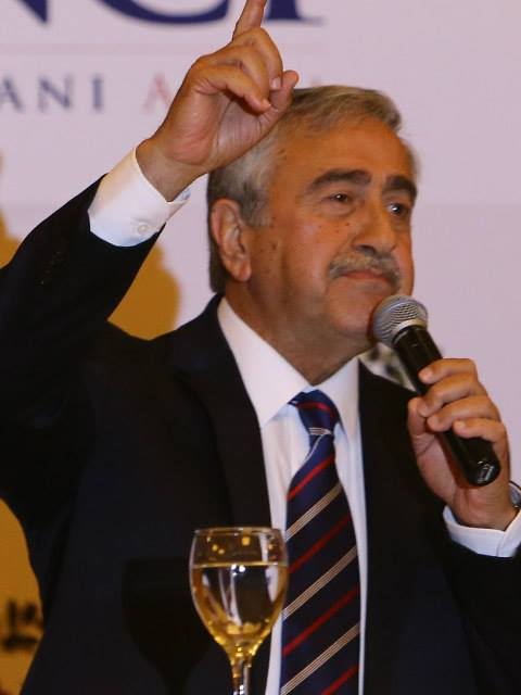 Cropped version of File:Mustafa Akinci.jpg.